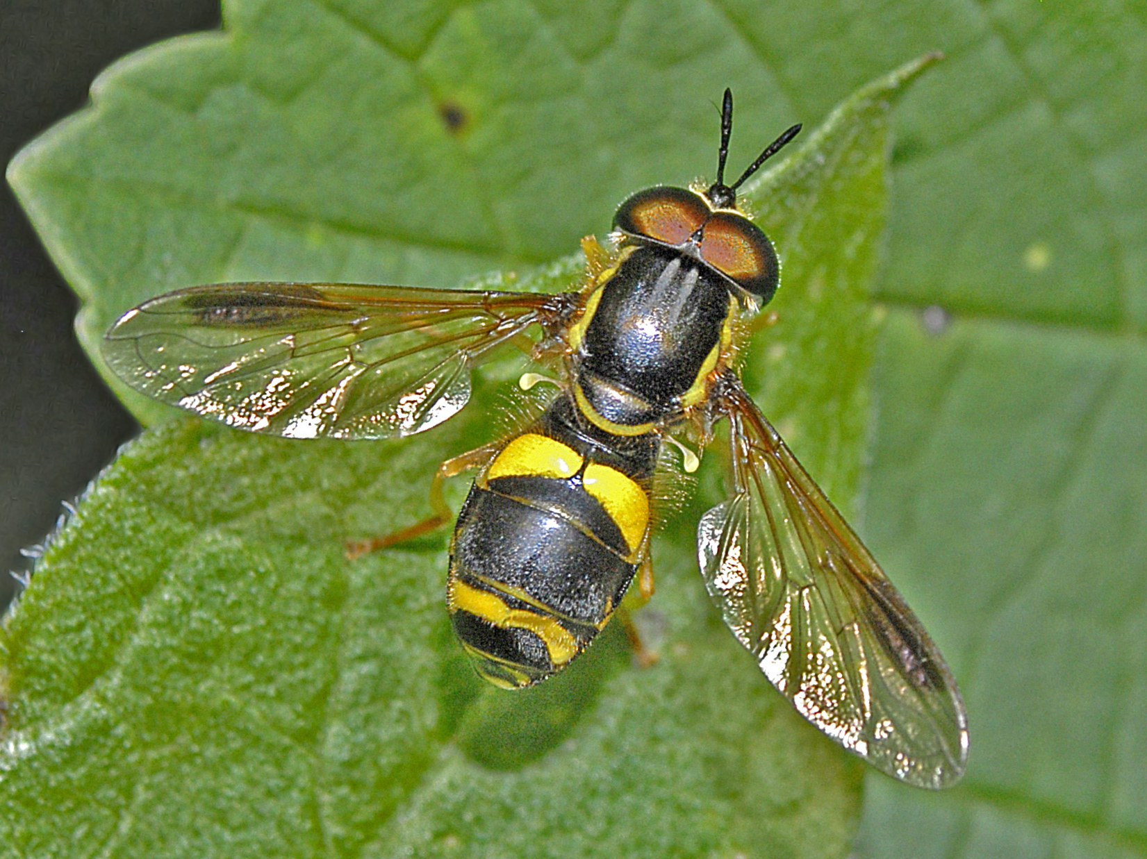 Chrysotoxum bicinctum. Male. Creto, Genova, Italy